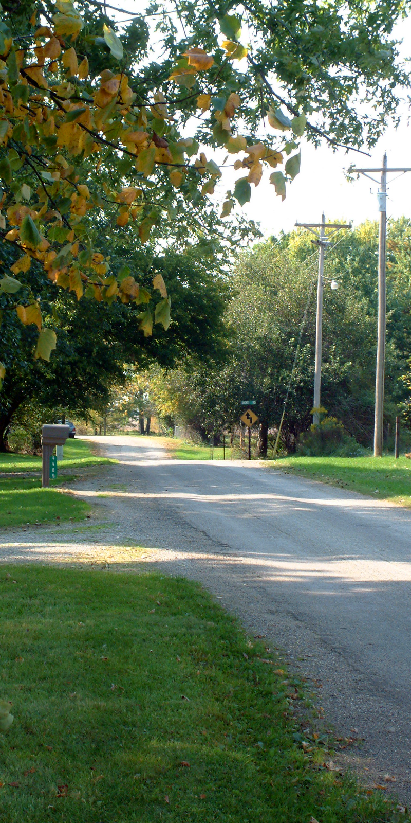 The view west on Farmer Street into the tiny hamlet of Winthrop in Warren County, Indiana.